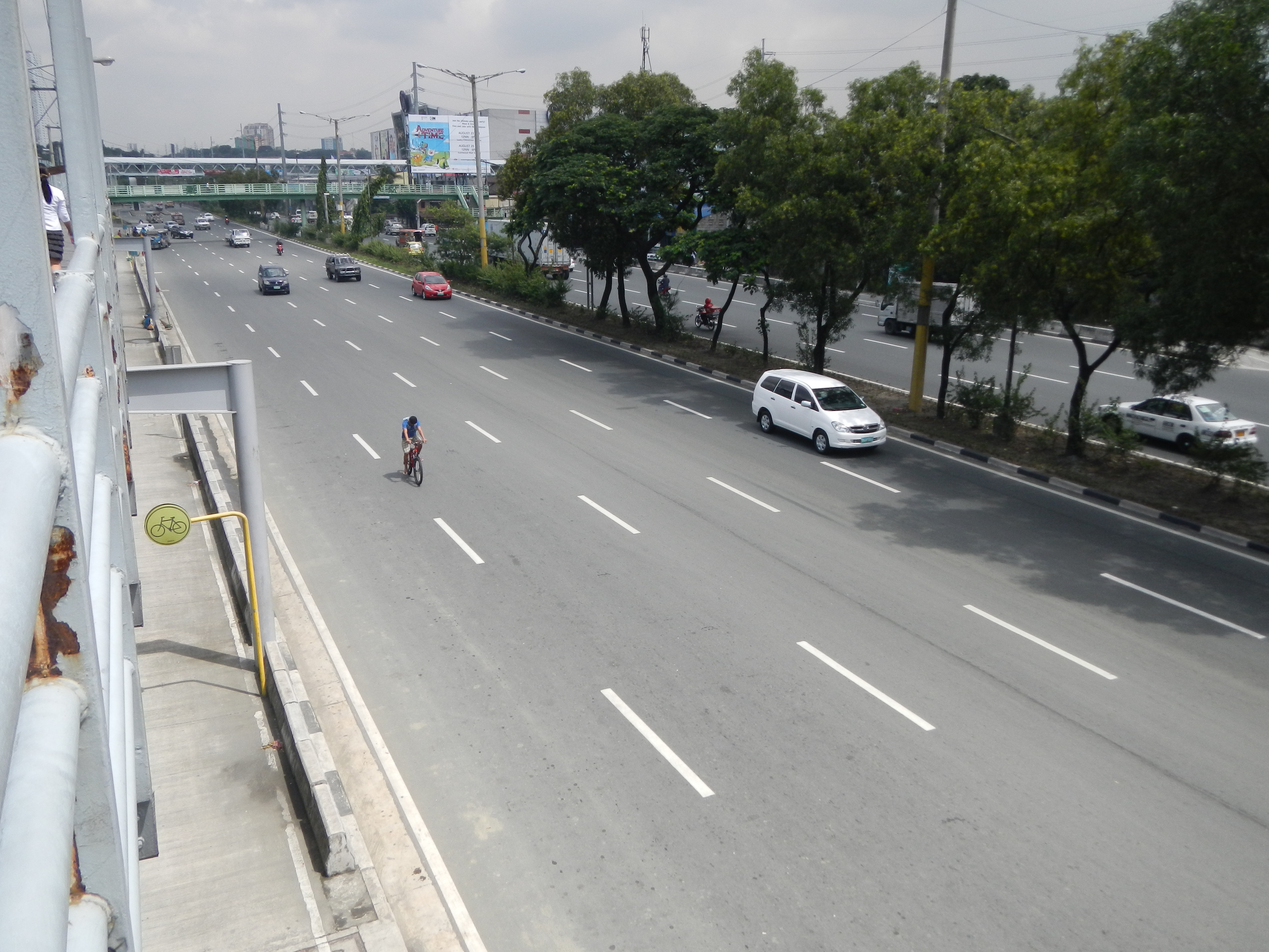 Footbridge near MRT-2 Santolan Station located in Marcos Highway, Calumpang, Marikina City (Located in Marikina City-Pasig Border) Marikina-Infanta Highway